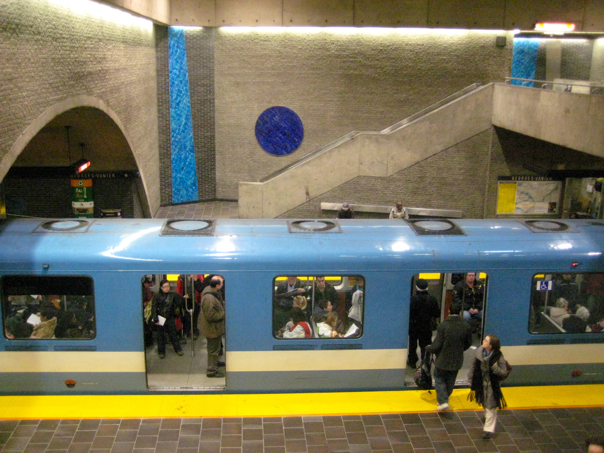 Platform of Georges-Vanier metro in Montreal